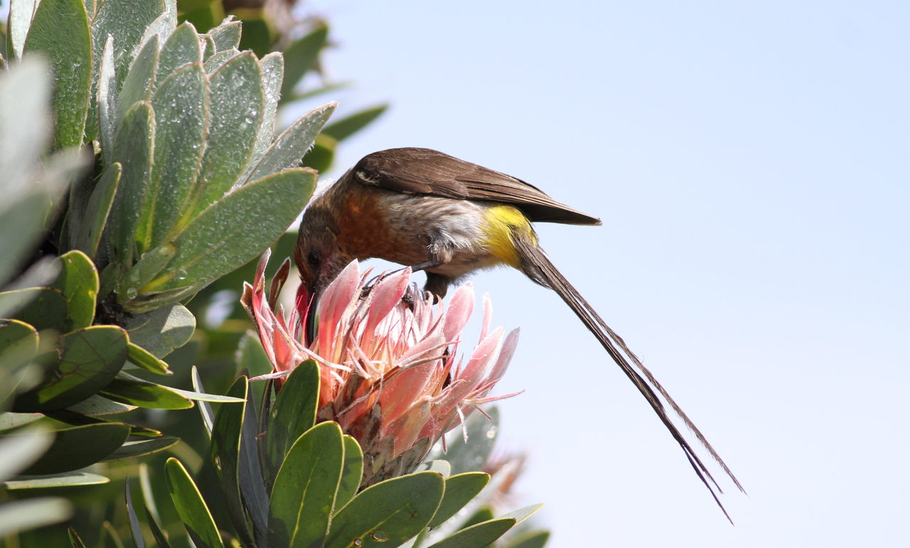 Gurney's Sugarbird, Promerops gurneyi at Marakele National Park, Limpopo, South Africa